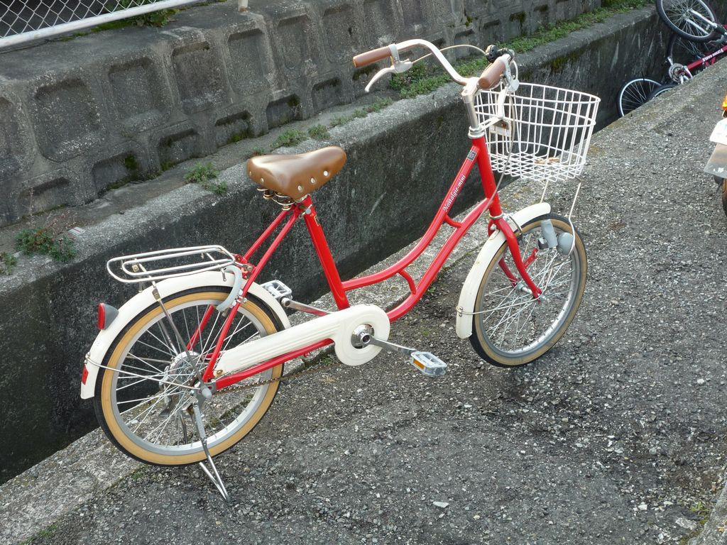 Mini-Cycle Stylish-Type